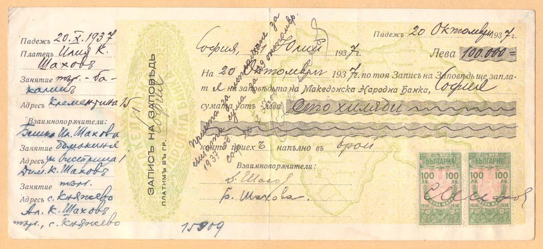 Записка заповед на Македонската народна банка за семейство Шахови